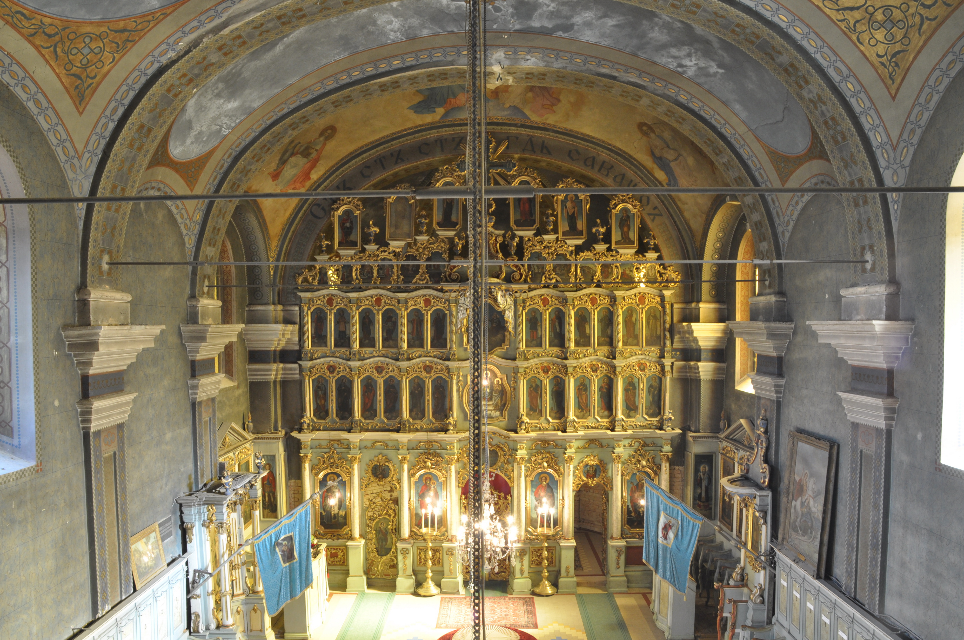 Serbian Orthodox church of Saint Sava and Saint Simeon in Srpski Itebej - iconostasis